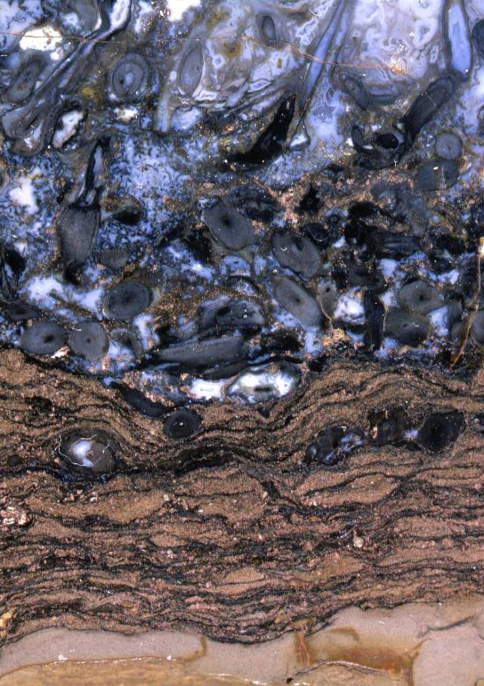 A cut and polished surface of a bed of Rhynie Chert, Scotland.